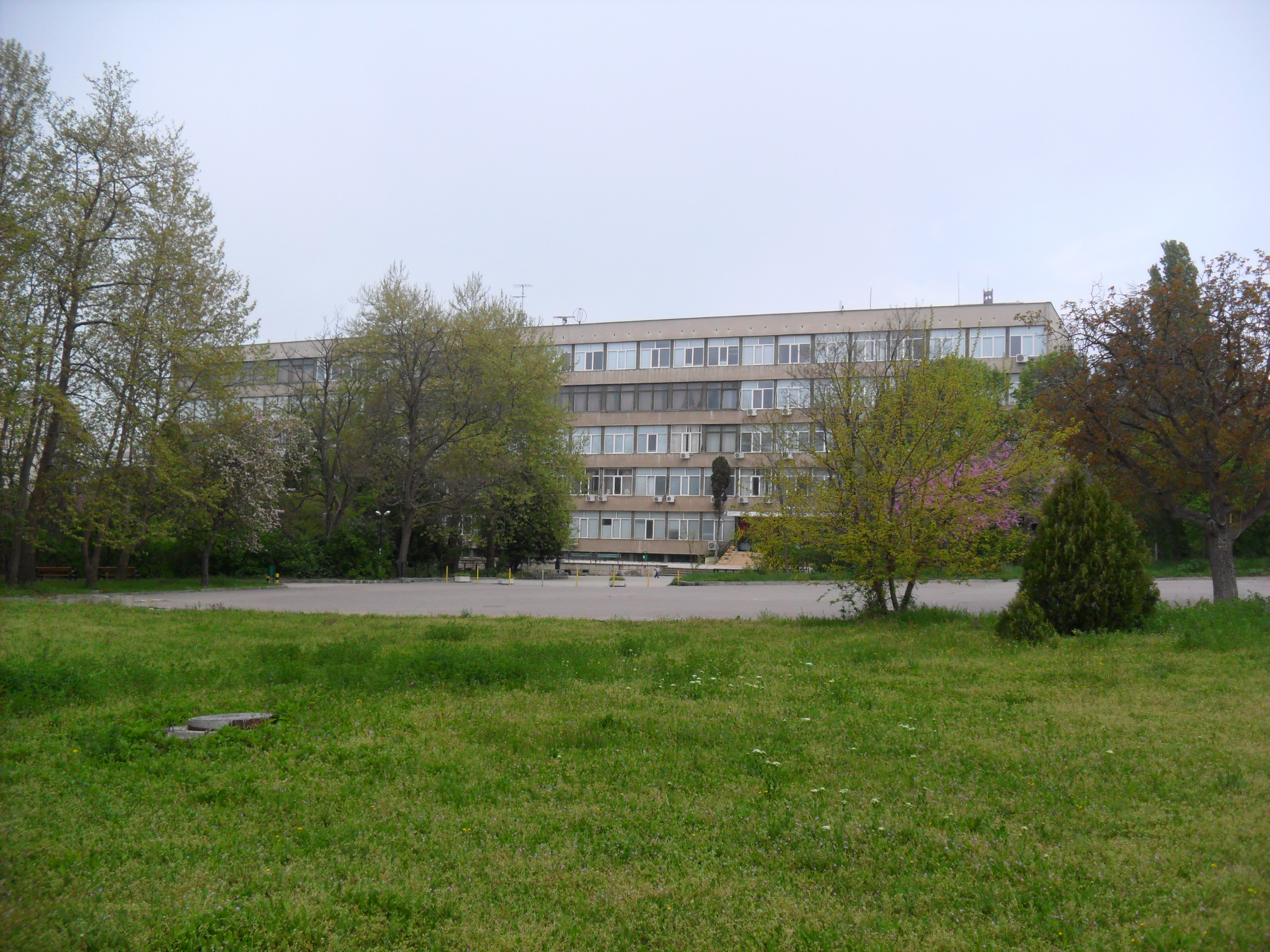 One of the main buildings in the University